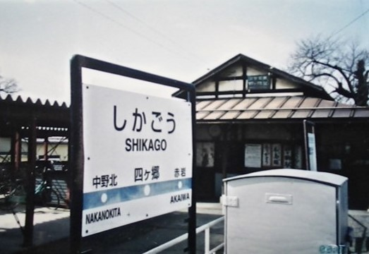 Naganodentetsu Shikago Station entrance&name 2002 March